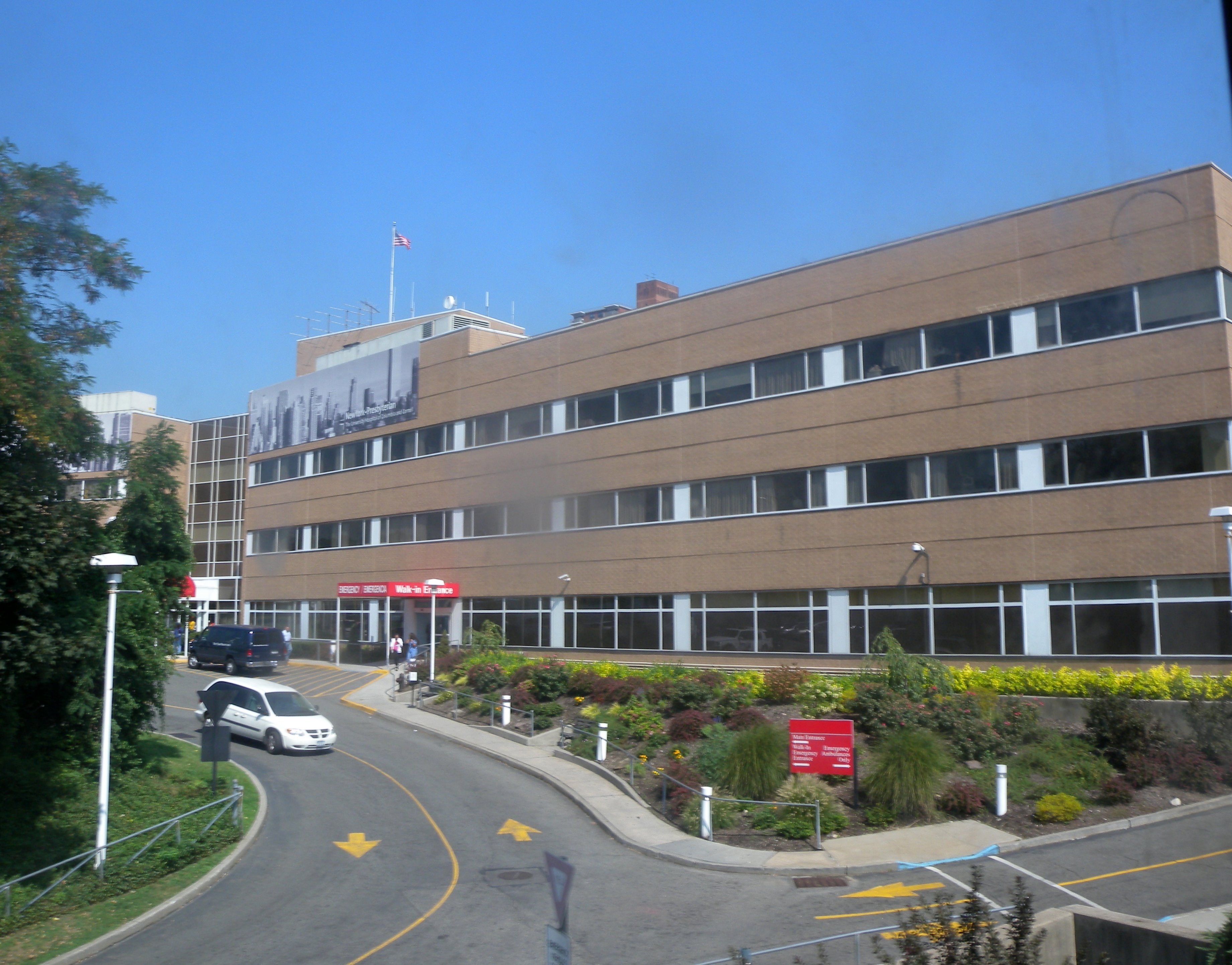 Looking north and down from southbound 1 train at NewYork-Presbyterian Hospital Allen on a sunny morning.